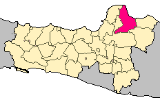 Pati county in Central Java province, Indonesia